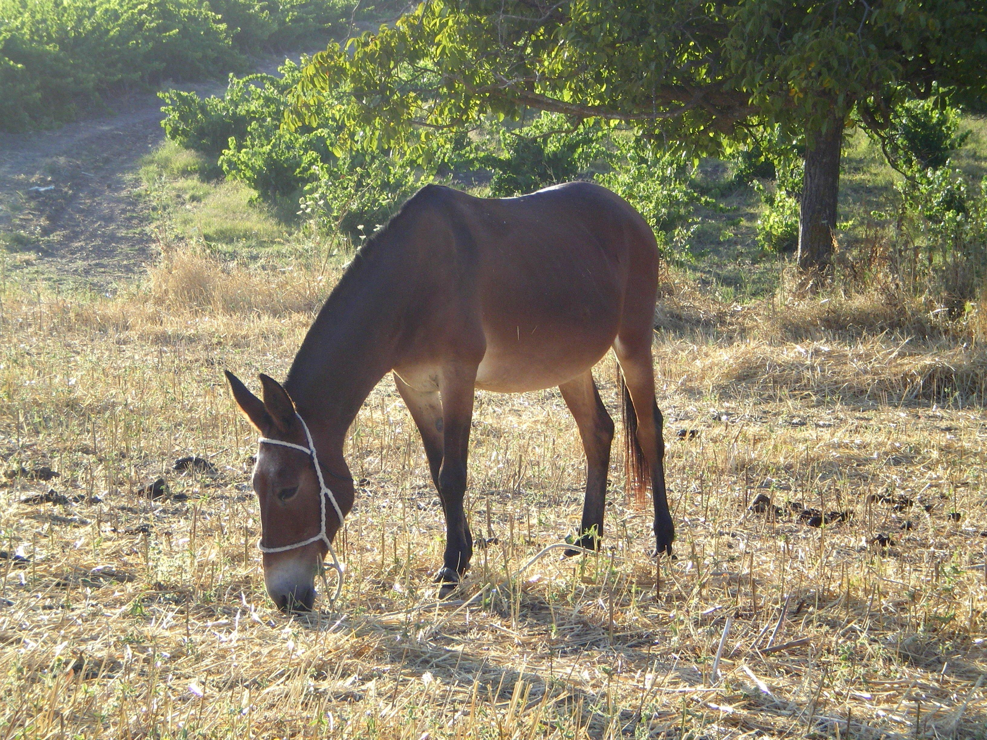 Mule in Moriles, Córdoba (Spain). Aragonés: Mula en Moriles, Cordoba.